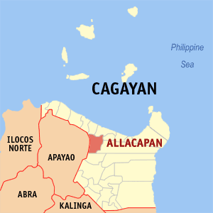 Map of Cagayan showing the location of Allacapan